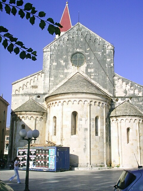 Town of Trogir, Croatia